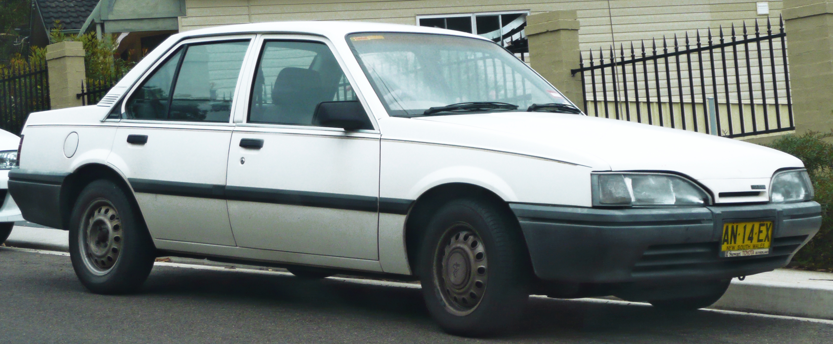 1988 Holden Camira (JE) SL sedan. Photographed in New South Wales, Australia.